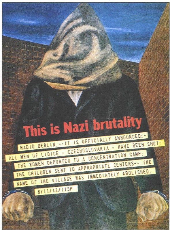 This is Nazi Brutality, poster by Ben Shahn, 1943, published by the US Department of War Information